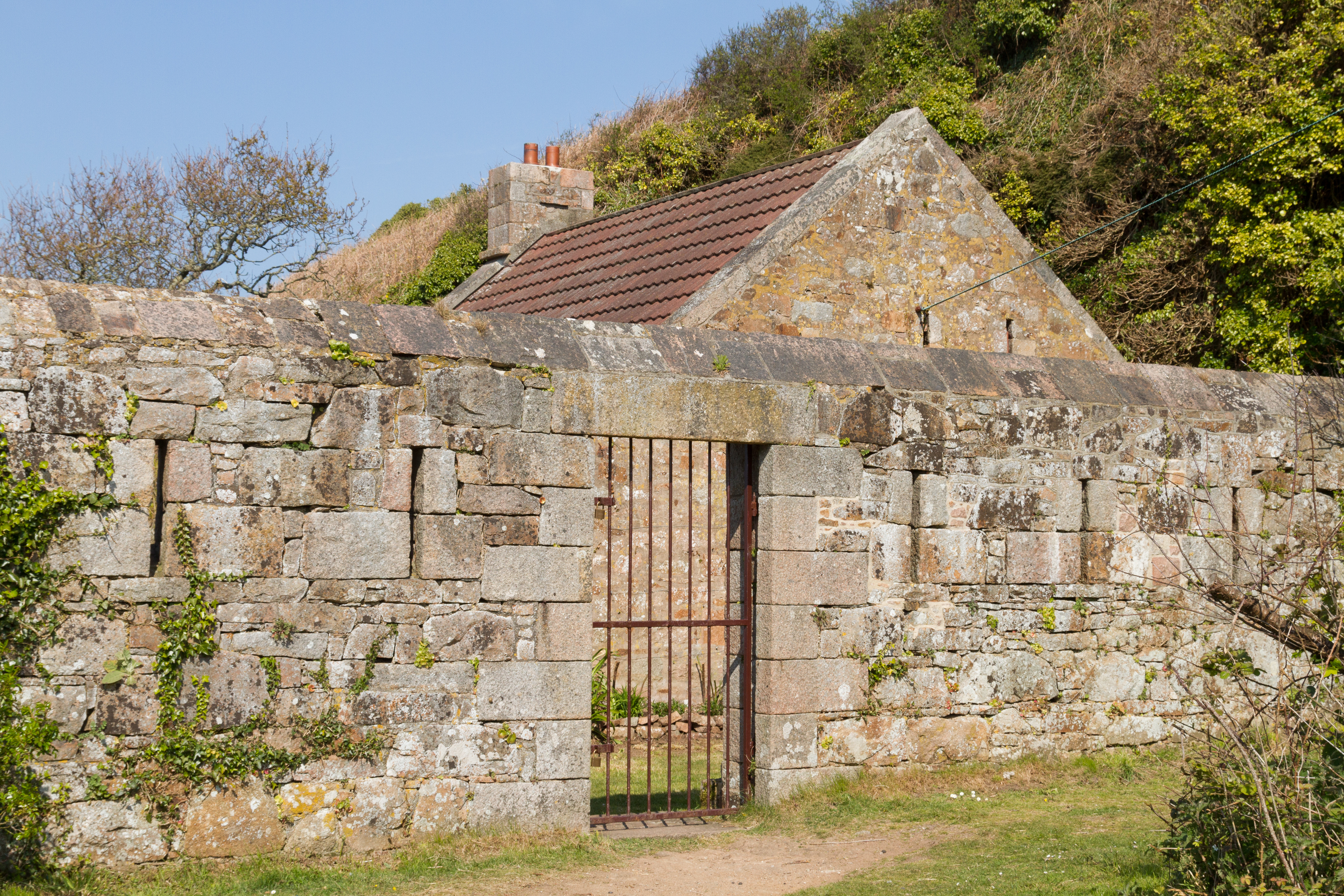 Entrance to Le Câtel Fort, Jersey.